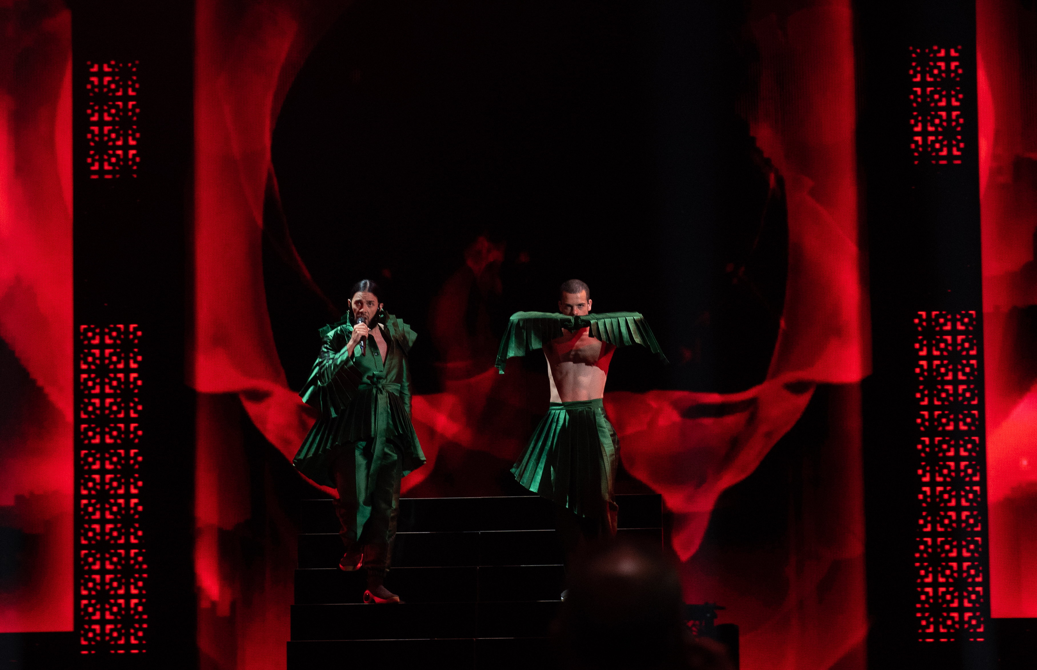 At the 2019 Eurovision Song Contest Semi-final 1 dress rehearsal